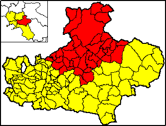 Area of production of Irpinia_Colline_dell'Ufita, an Italian Protected Geographical Status olive oil, within the province of Avellino